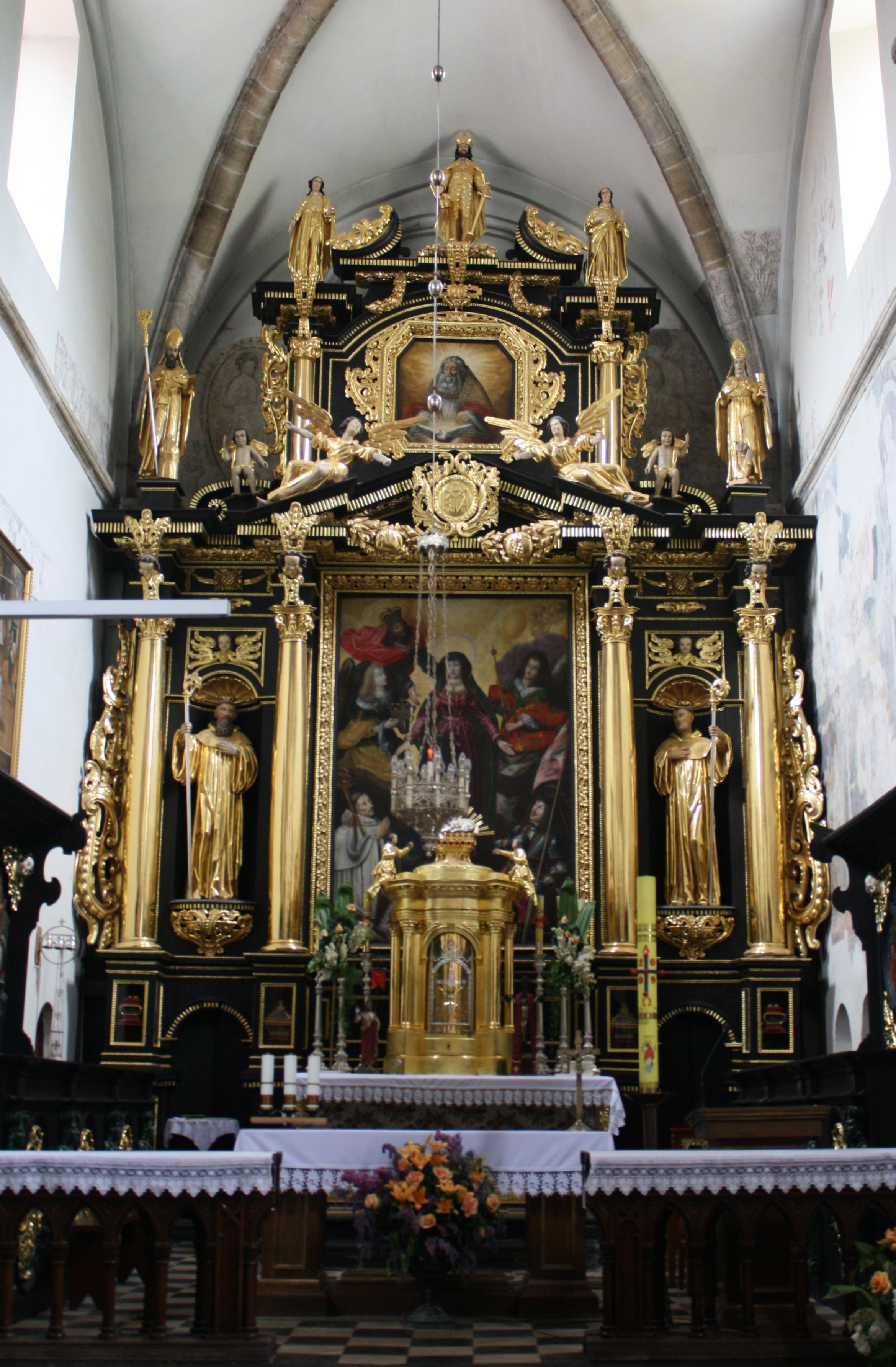 Former Cistercian abbey in Koprzywnica, main altar